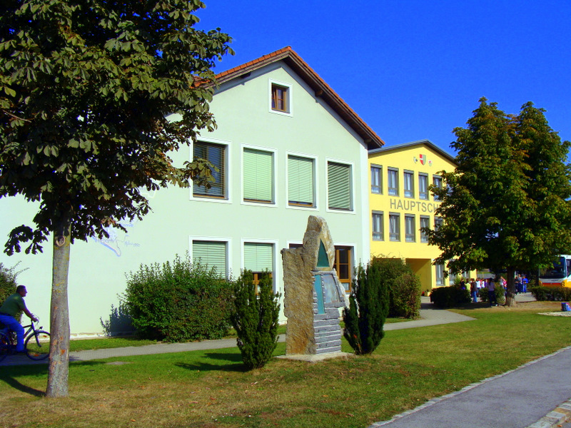 school in Rückersdorf-Harmannsdorf